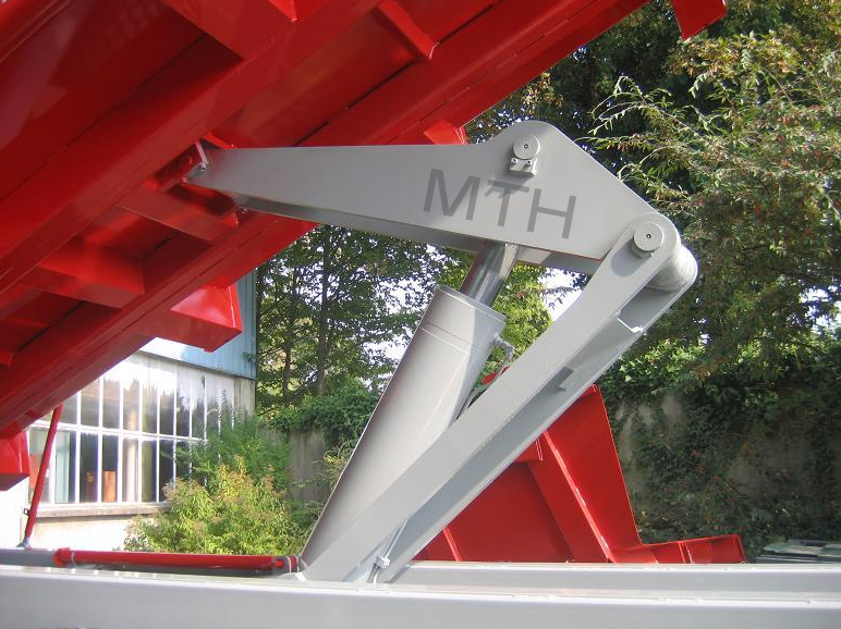 Rear dumper tipper scissor